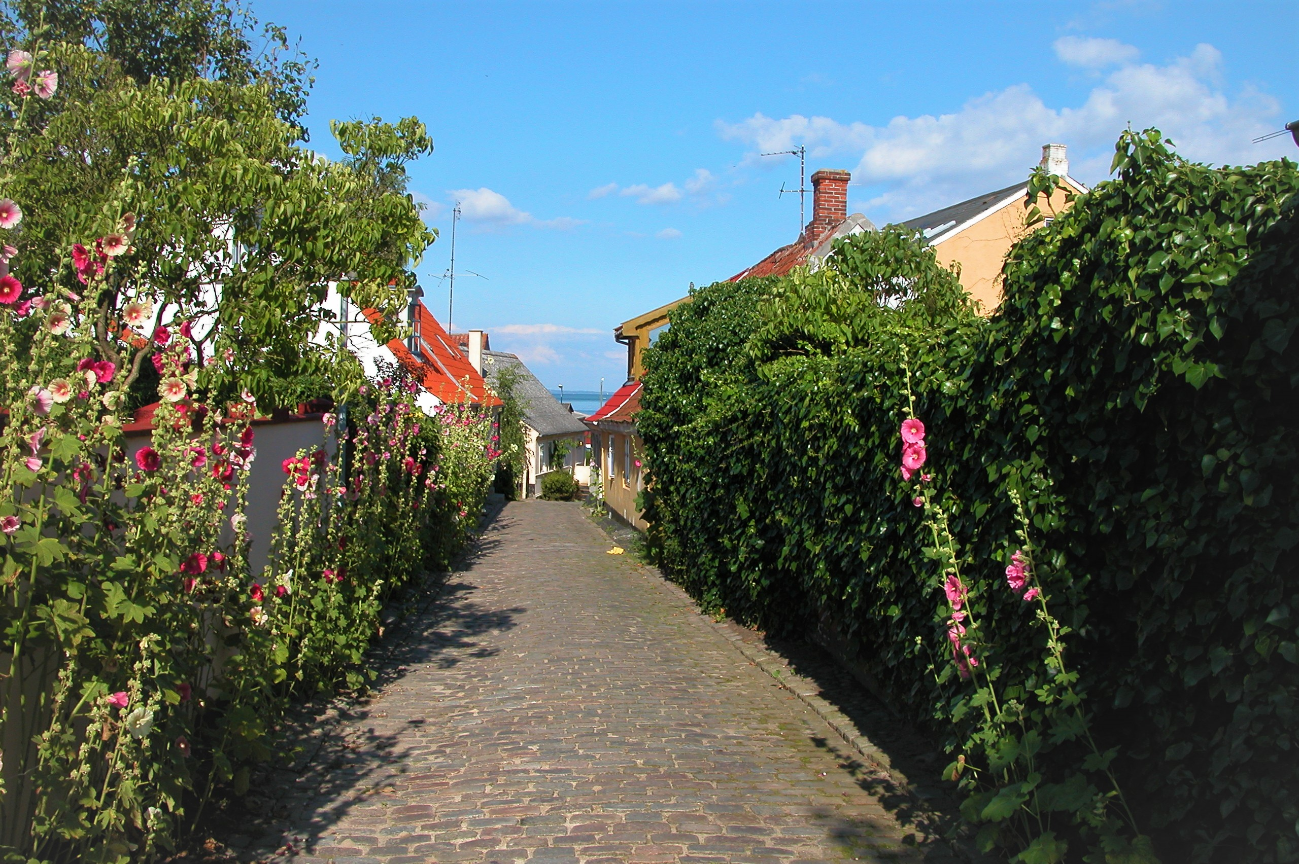 Marstal, Ærø, Denmark